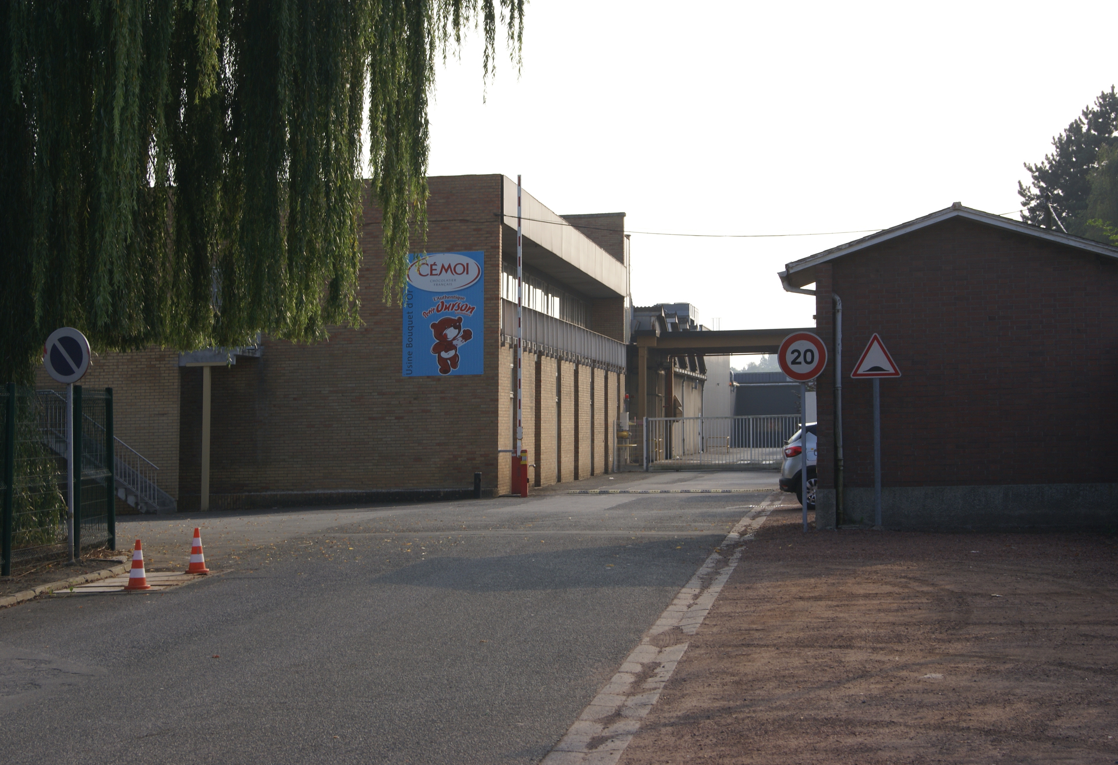 Bouquet d'Or factory, Ascq.